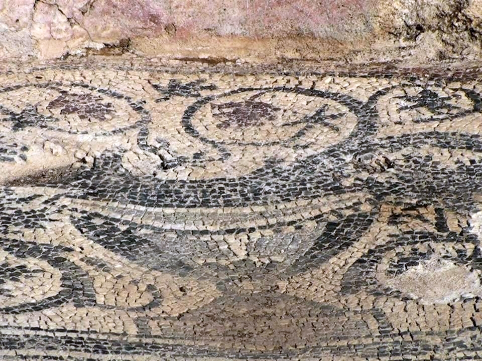 Mozaics adjacent to Domed Church at Kaunos